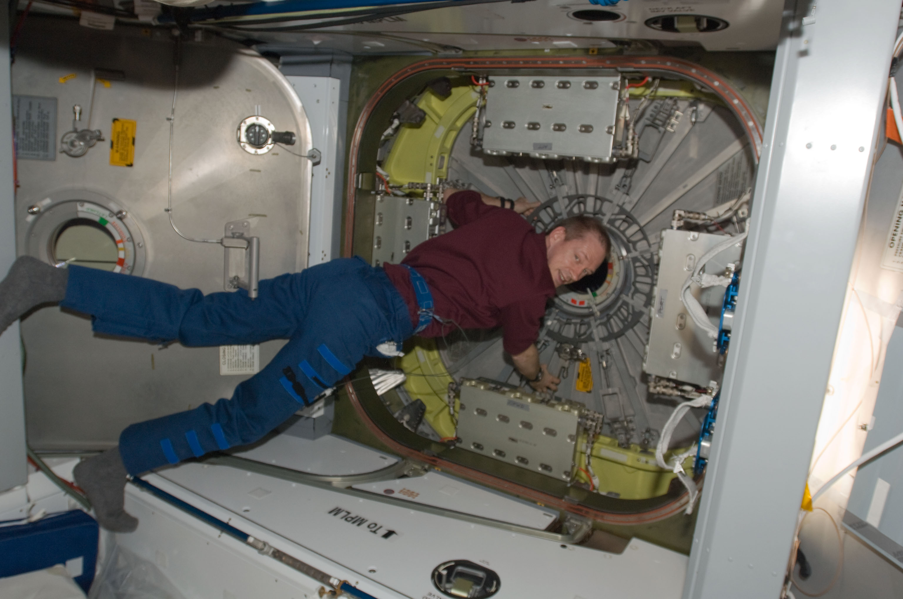 European Space Agency astronaut Frank De Winne, Expedition 21 commander, works in the vestibule between the International Space Station's Harmony node and the Japanese H-II Transfer Vehicle (HTV) in preparation for the release of the HTV scheduled for Oct. 30, 2009.